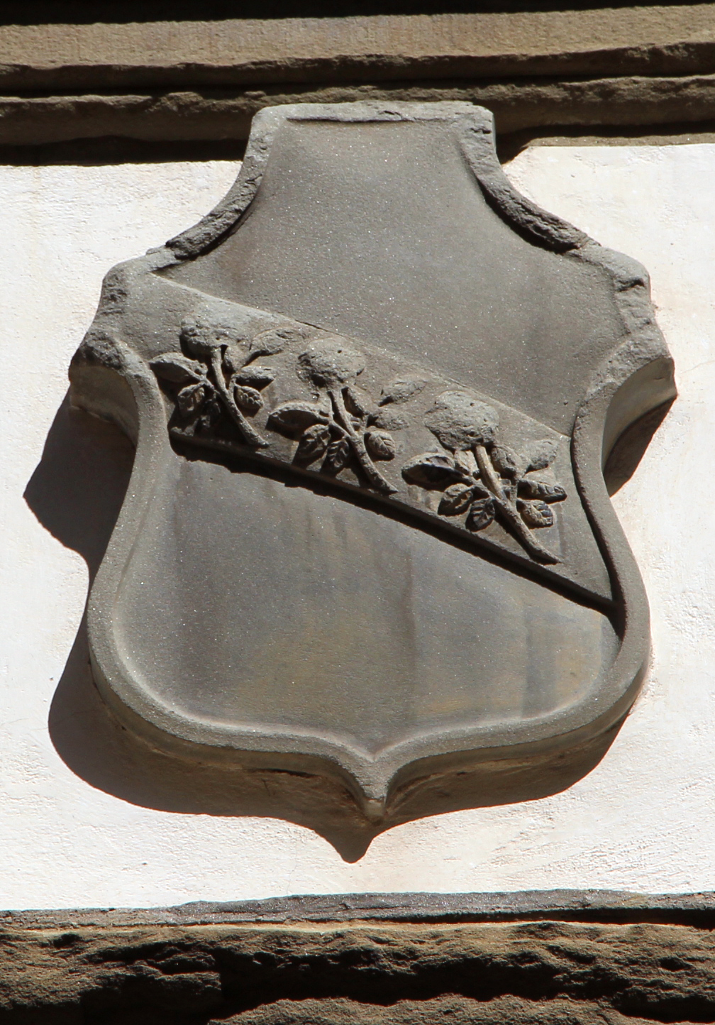 Palazzo Baldi (Florence)